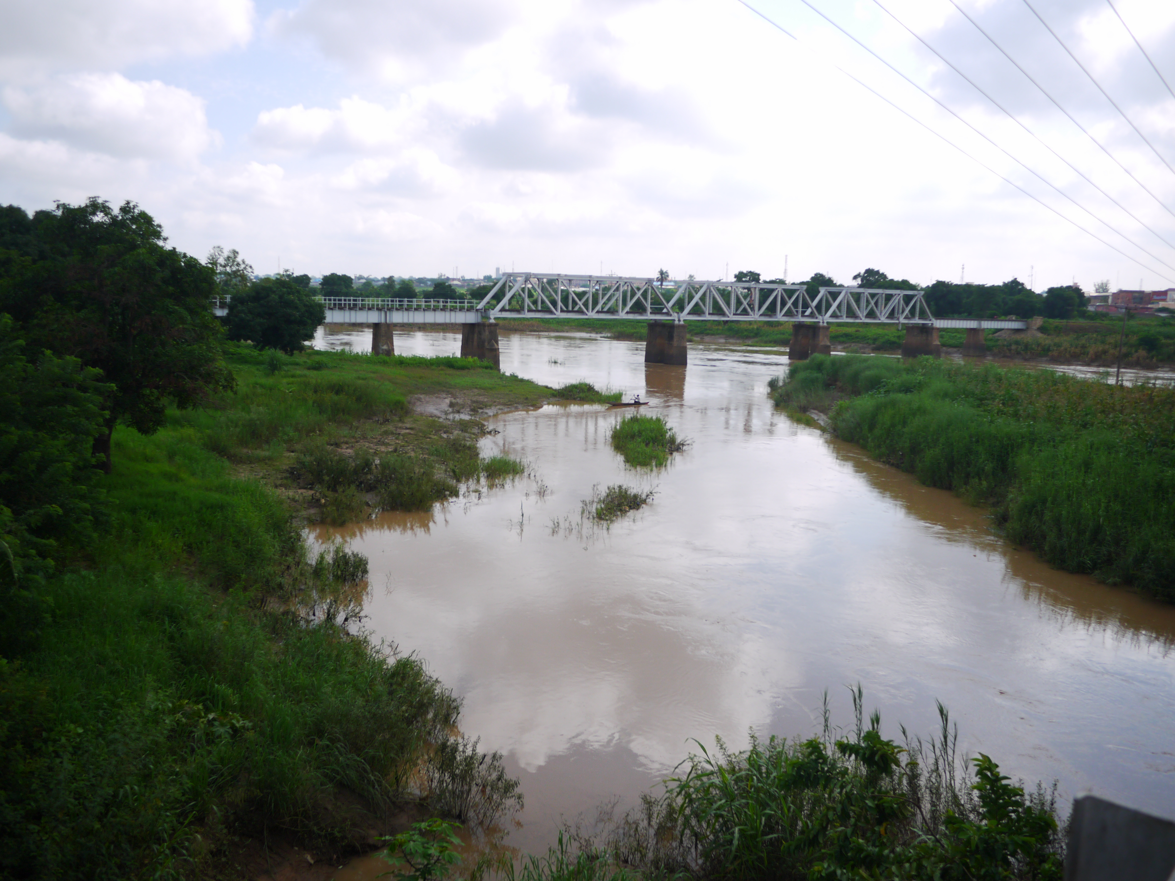 Another view of the River Kaduna with the Old Railway Bridge running across it [Kaduna State]